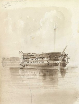 HMS Formidable at Sheerness. No. 5 of 36 (PAI0849 - PAI0884). Detail This was drawn while Mends was first lieutenant of the 'Trafalgar' at Sheerness. A study done in pencil and brown wash inscribed, 'Formidable Sheerness - Medway / Dec 1850', showing the 84-gun two-decker 'Formidable' at anchor from ahead off the port bow, with another similar ship astern of her. Both are moored on harbour service with the lower masts only indicated in pencil. 'Formidable', which has her anchors hanging a-cockbill and a boat hoisted out on davits, had tremendous longevity. Her frames were captured on the stocks at Genoa in 1814, from which she was completed at Portsmouth in 1825. She was lent as a training ship in 1869 and only sold for breaking in 1906.